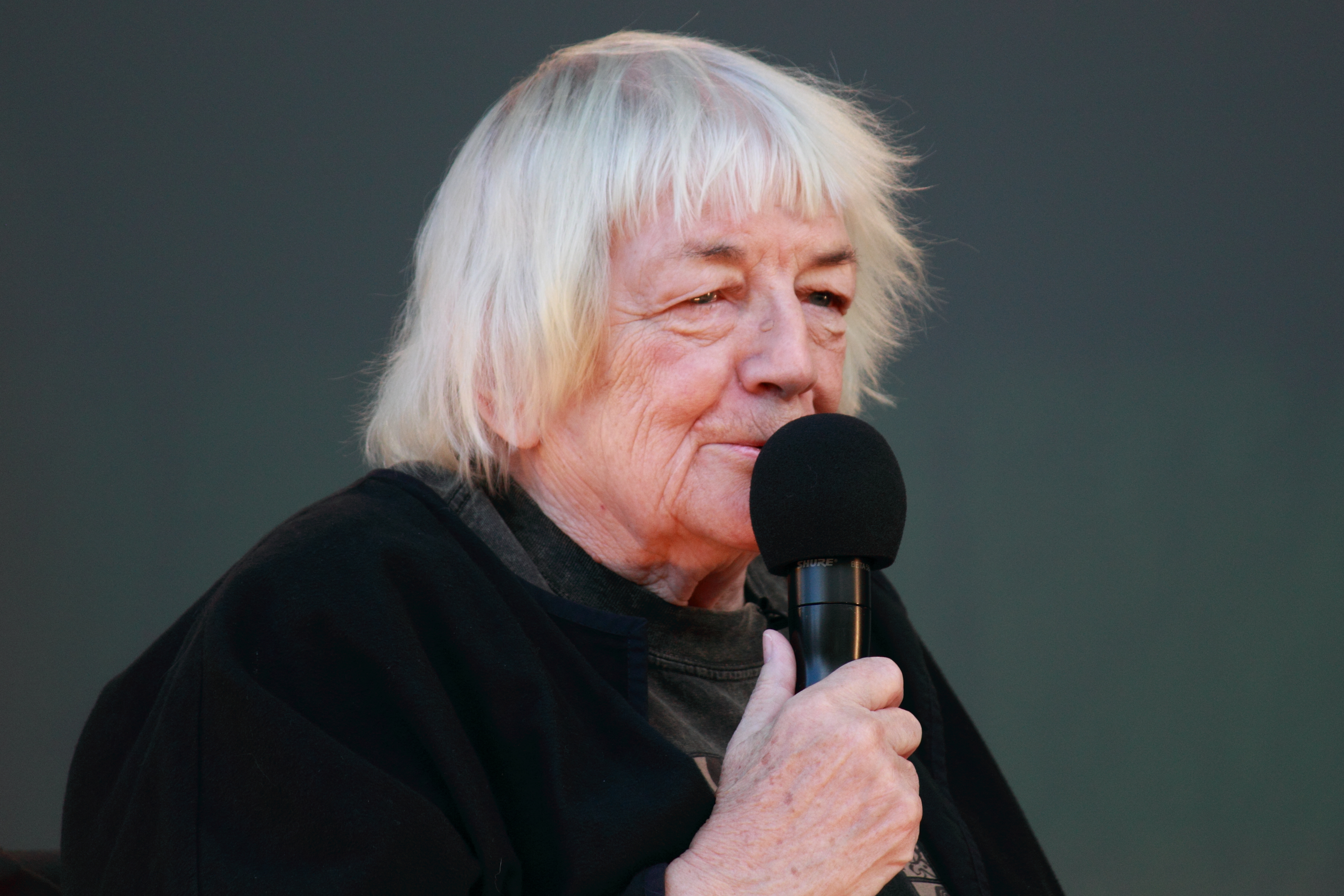 Margit Sandemo at the Oslo Book Festival